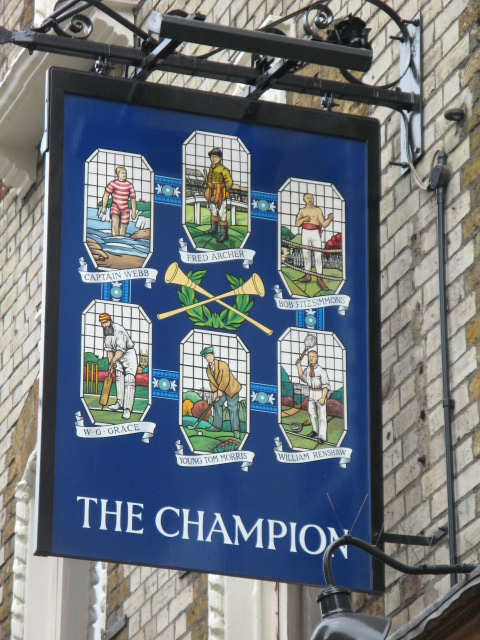 Sign for The Champion, Wells Street / Eastcastle Street, W1 See 1529223.